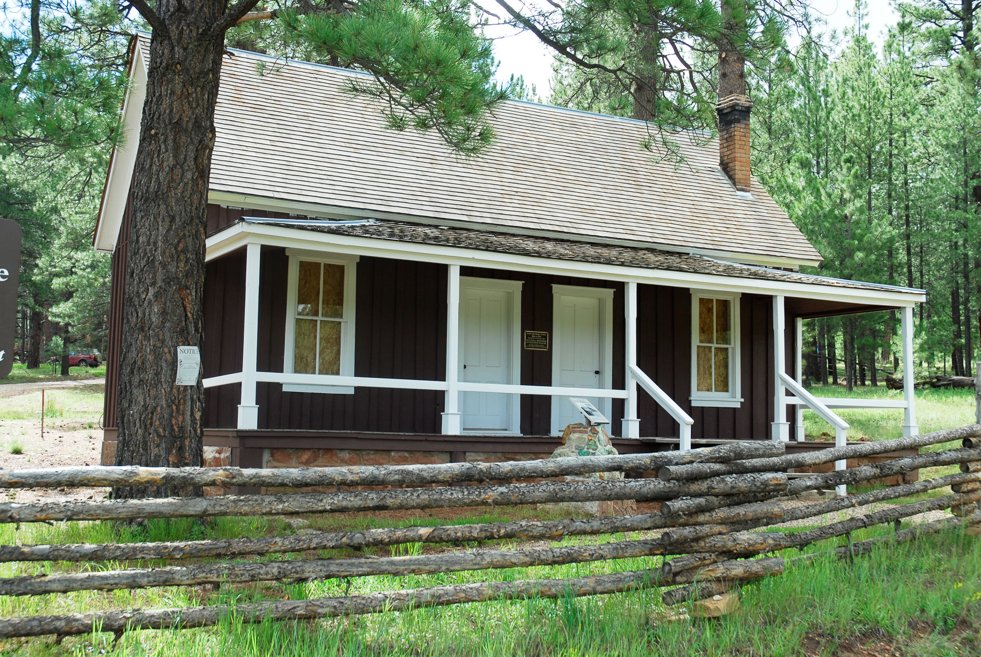 The historic Jacob Lake Ranger Station on the North Kaibab Ranger District. Please give credit to: U.S. Forest Service, Southwestern Region, Kaibab National Forest.